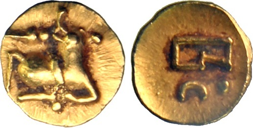 A Small Gold coin (known as Fanam) from Medieval Odisha's Ganga Dynasty